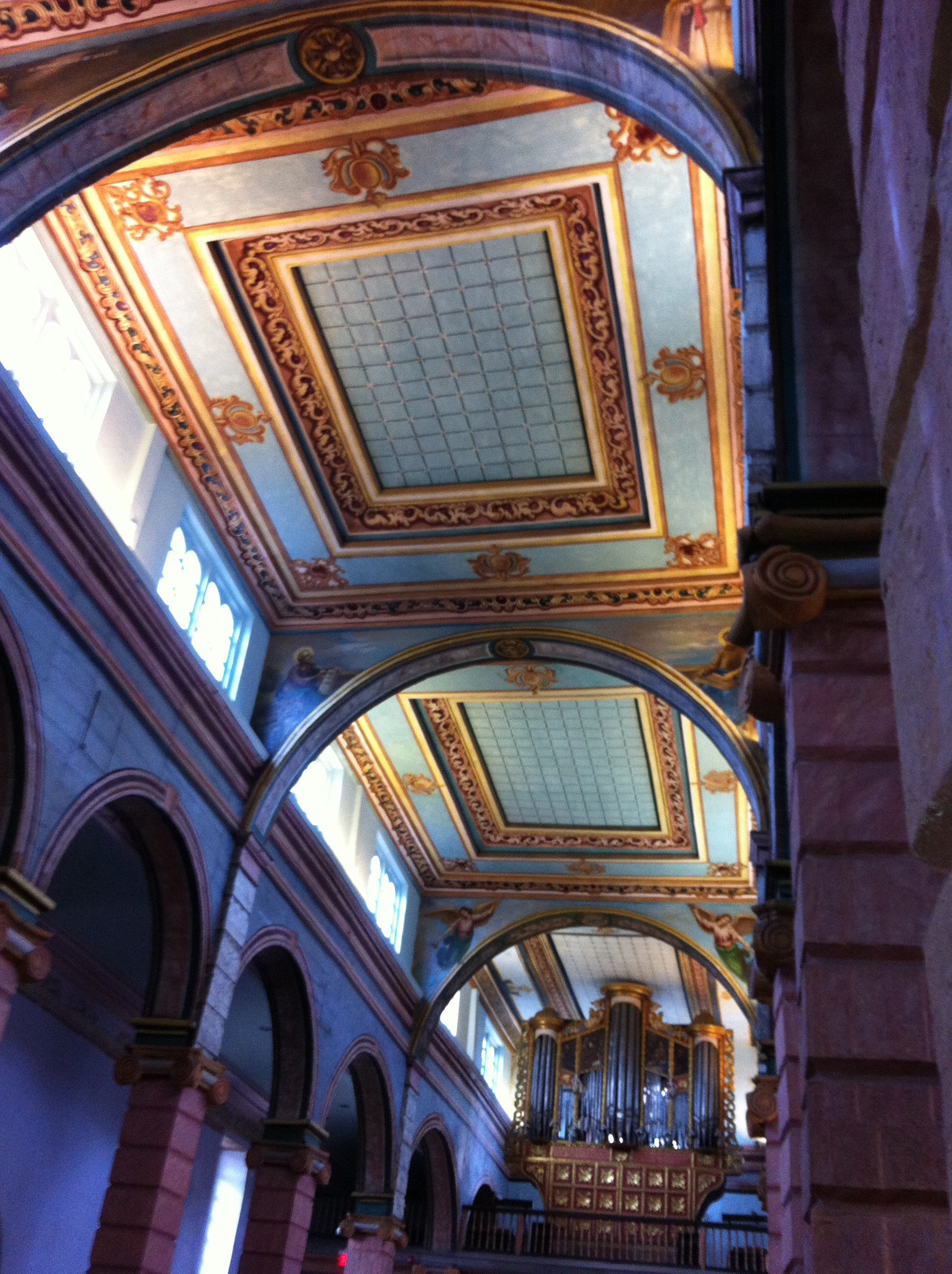 Ceiling of the Old Cathedral of Cuenca (officially Iglesia del Sagrario) in Cuenca, Ecuador.